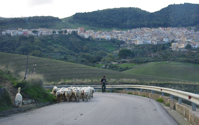 view of Contessa Entellina, Palermo, Sicily